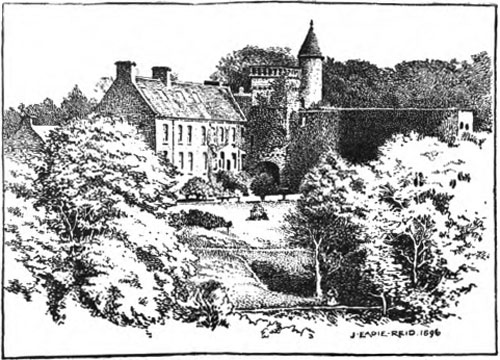 The Bonnie House O' Airlie